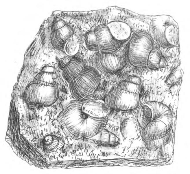 Drawing of Purbeck marble with shells of Viviparus carinifer.